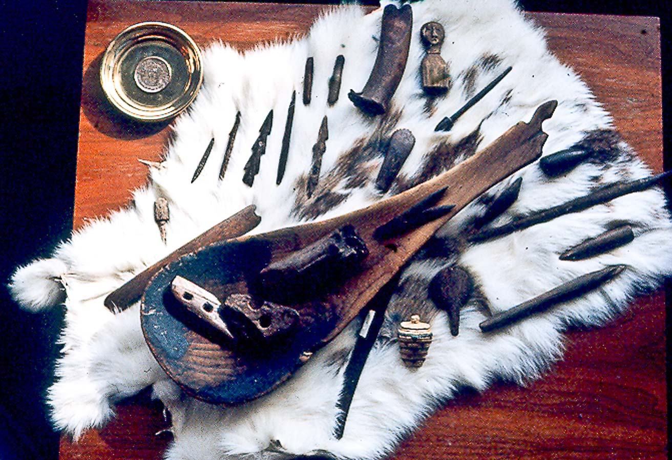 "Old Timers" dug from from Hooper Bay, Alaska